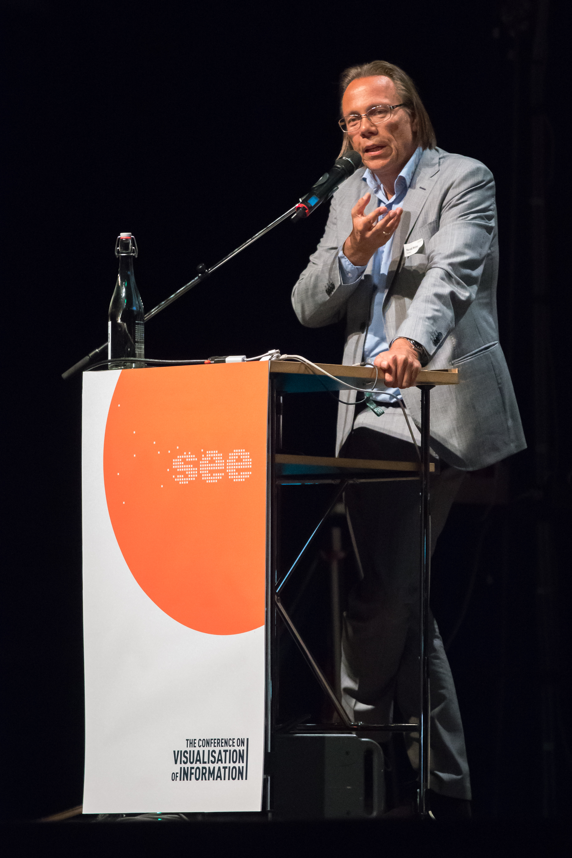 Harald Welzer at the See-Conference 2015 in the Schlachthof Wiesbaden